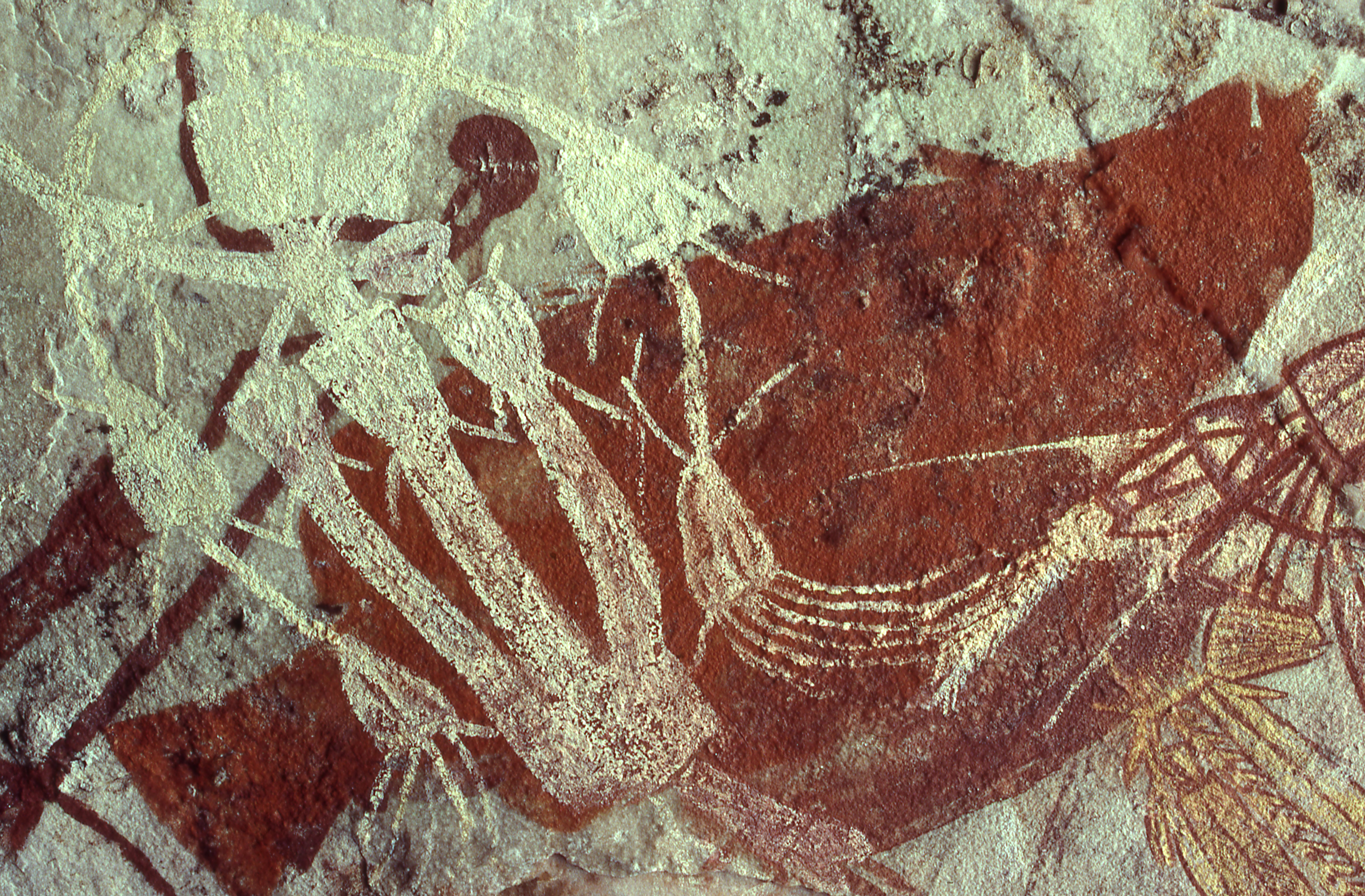 Aboriginal painting at Jabiru Dreaming, Kakadu NP, Australia (Kodachrome slide)